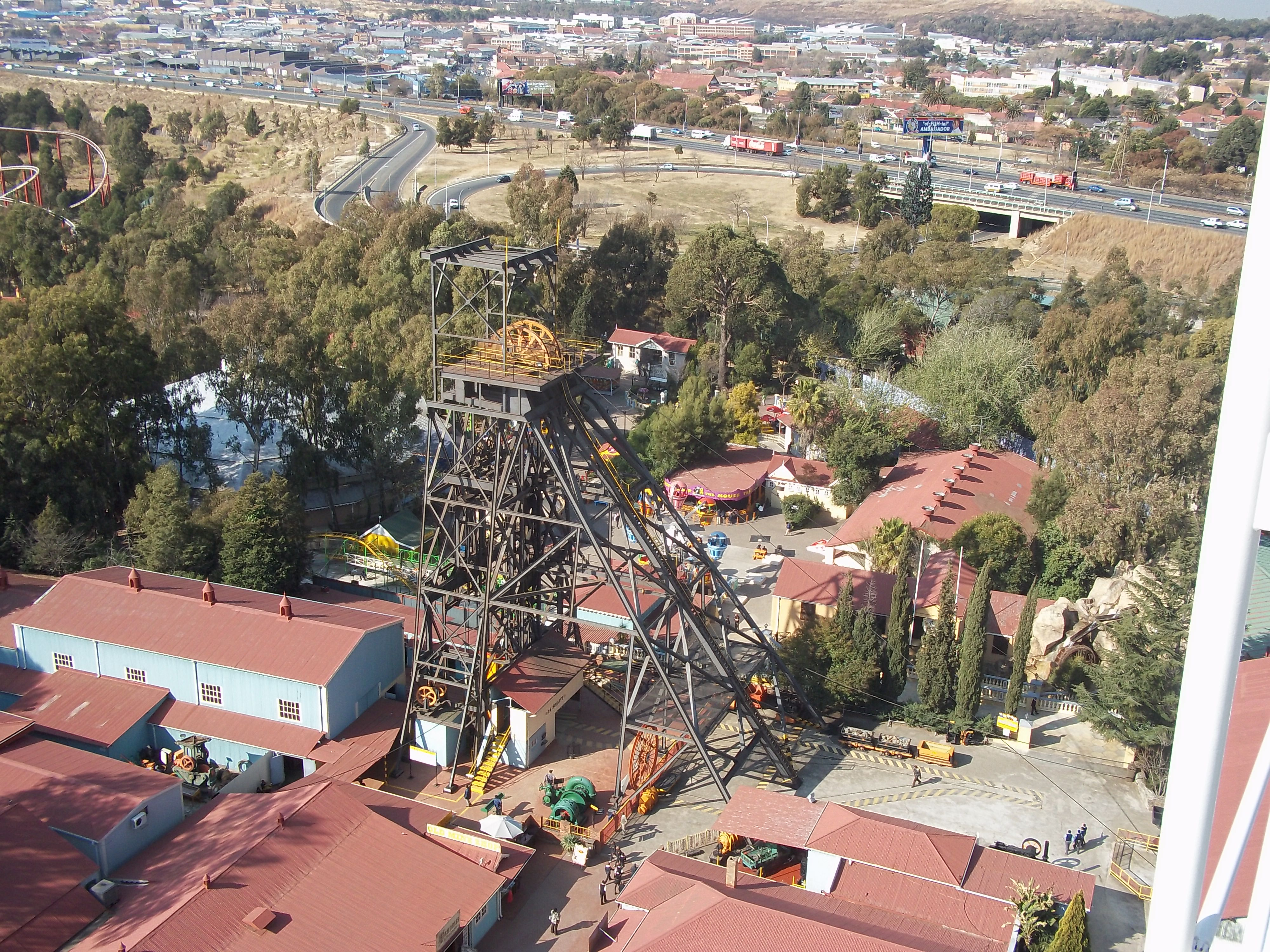 The mine headgear as seen from the Big Wheel at Gold Reef City, Johannesburg, South Africa.